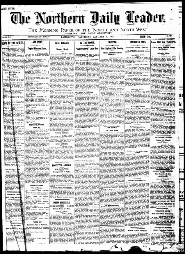 The front page of the Northern Daily Leader on 1 January 1921